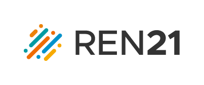 New logo